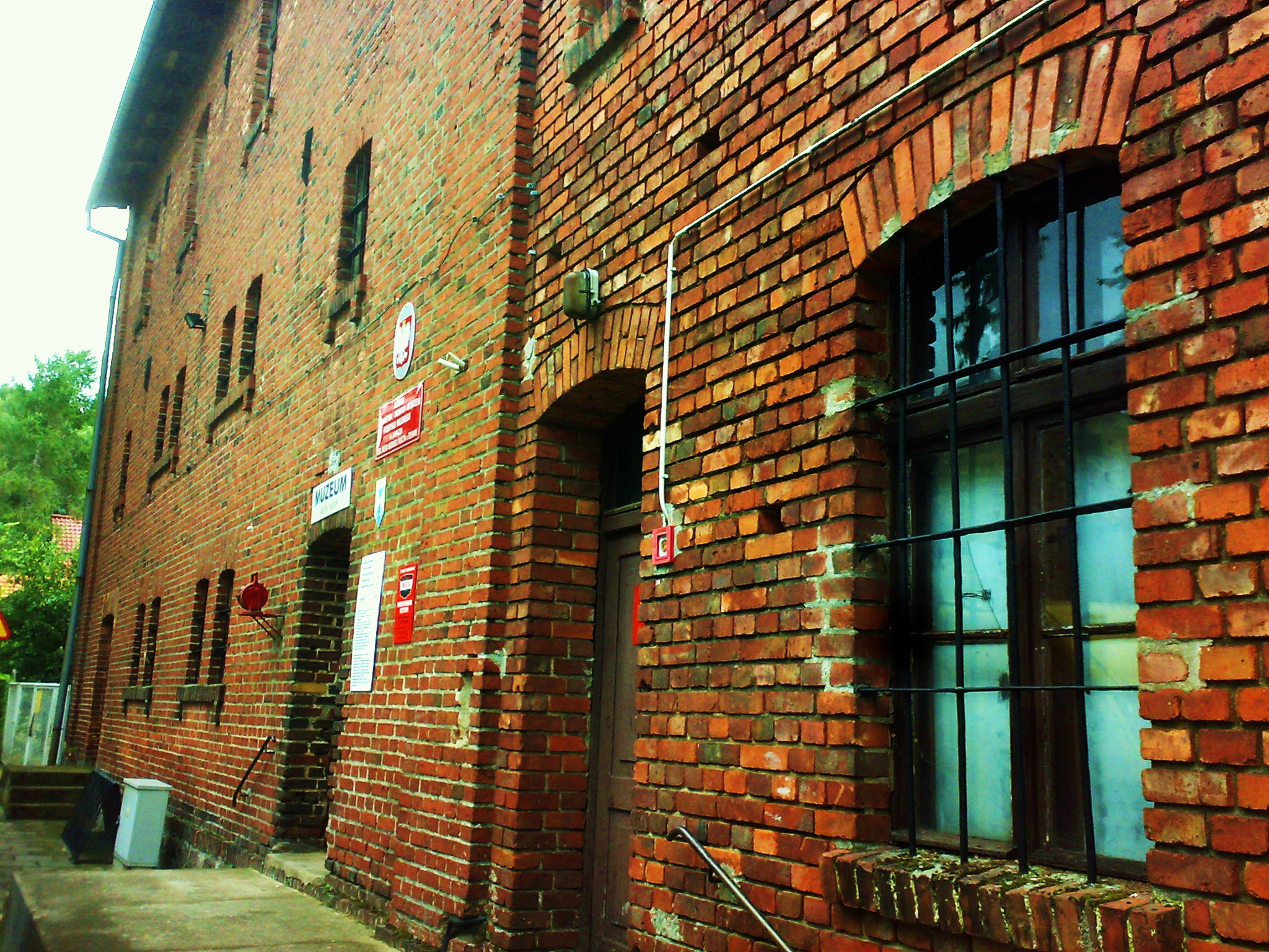 Jaracz, Poland - Mill.